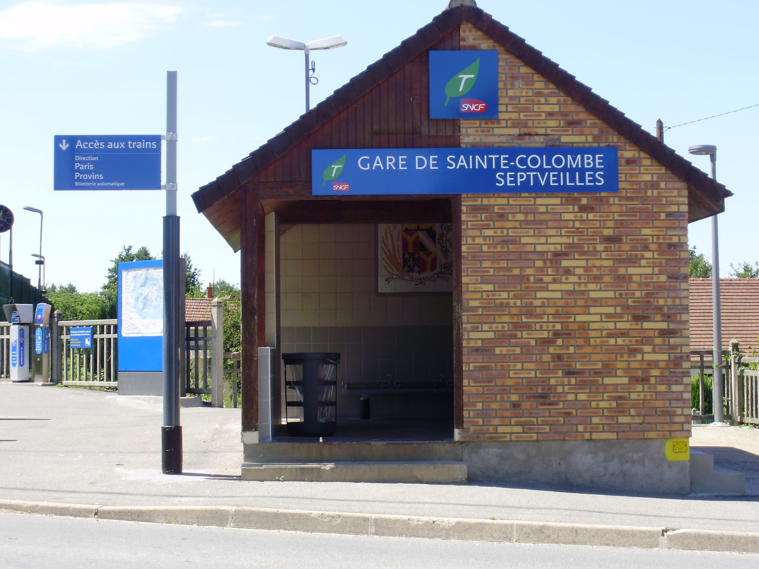 Sainte-Colombe - Septveilles station, in Sainte-Colombe, Seine-et-Marne, France (shelter for tickets machine and for waiting)